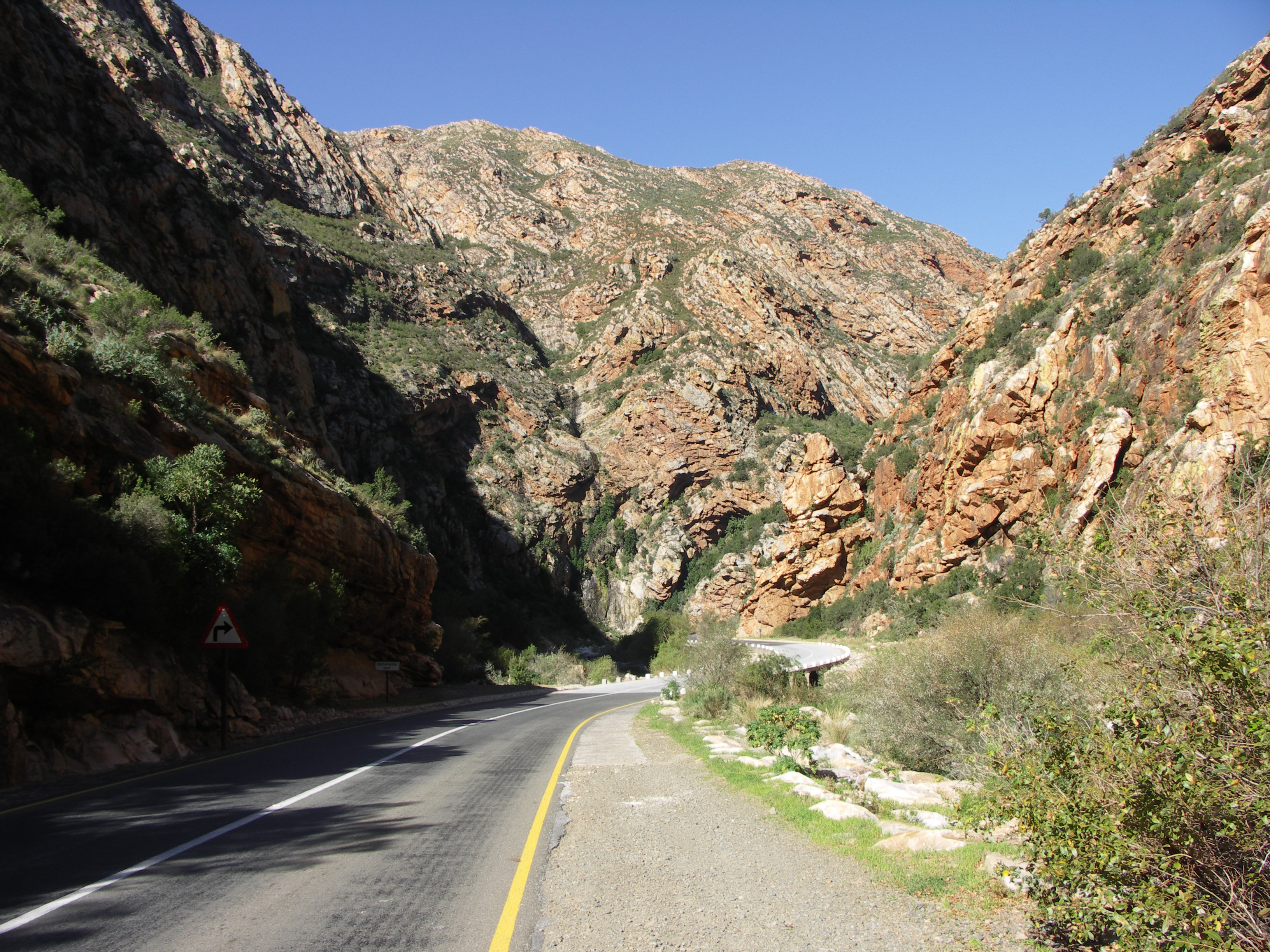 Perseboom Drift in the Meiringspoort pass through the Swartberge, northeast of Oudtshoorn, South Africa